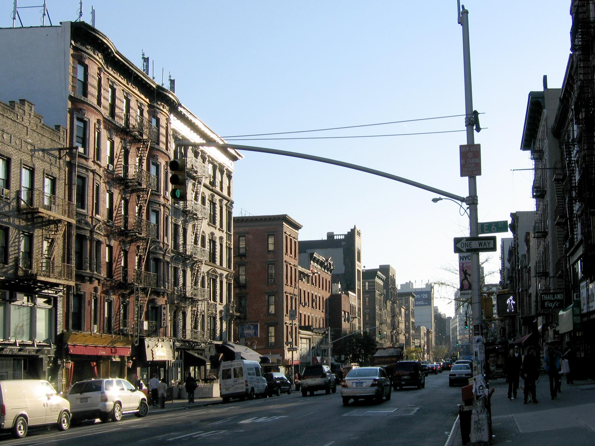 The East Village, looking south down Second Avenue from 6th Street. The majority of the building shown are located within the East Village/Lower East Side Historic District (Source: "East Village/Lower East Side Historic District Designation Report")